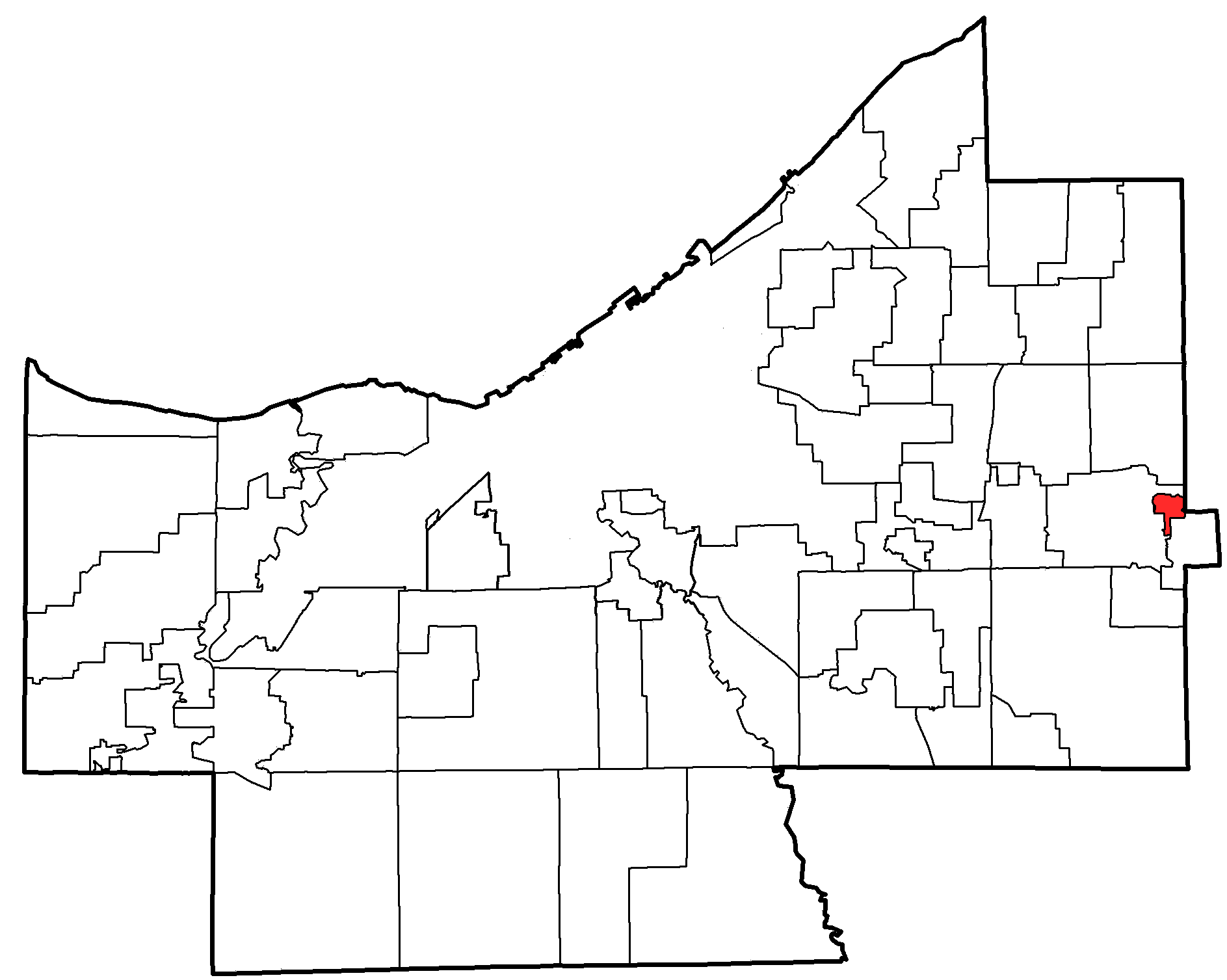 Chagrin Falls Township This map shows the community's extent in Cuyahoga County, Ohio. Base map, Image:Cuyahoga_County.png, was created by User:Clevelander. Highlights were made by User:DangApricot.